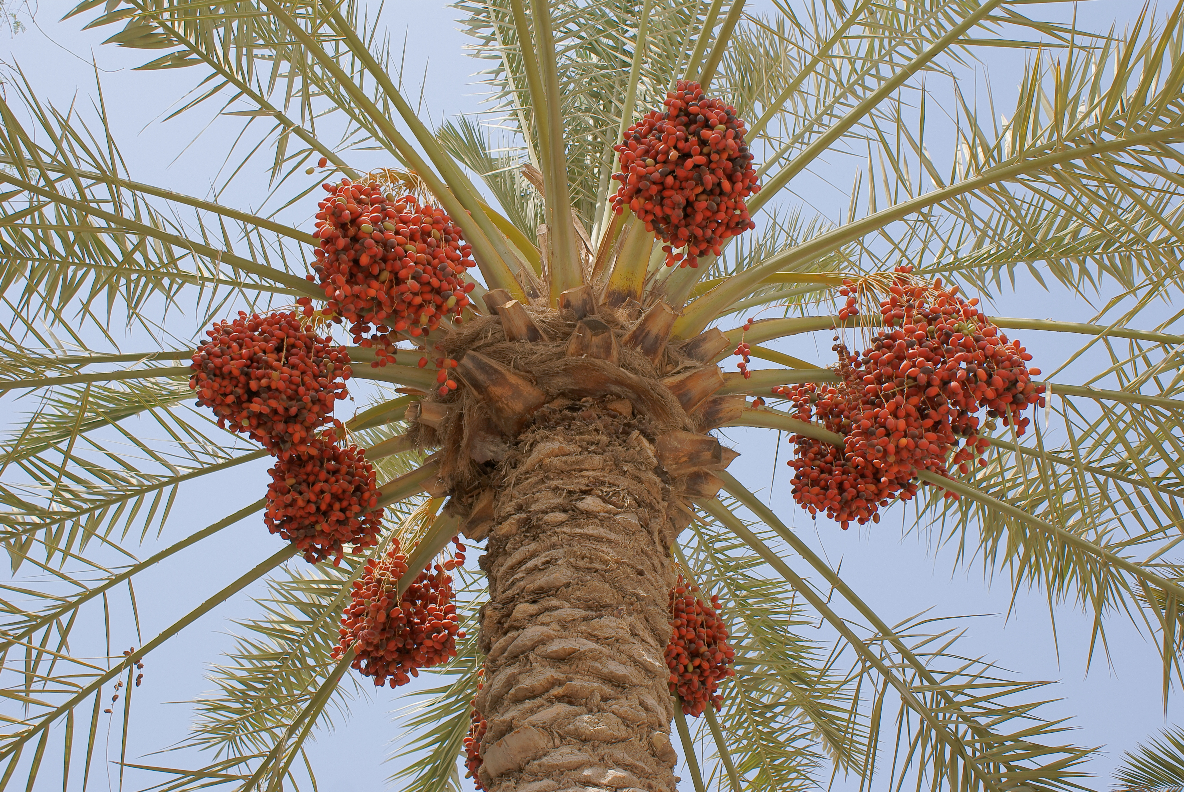 Dates ripening on a phoenix dactylifera.